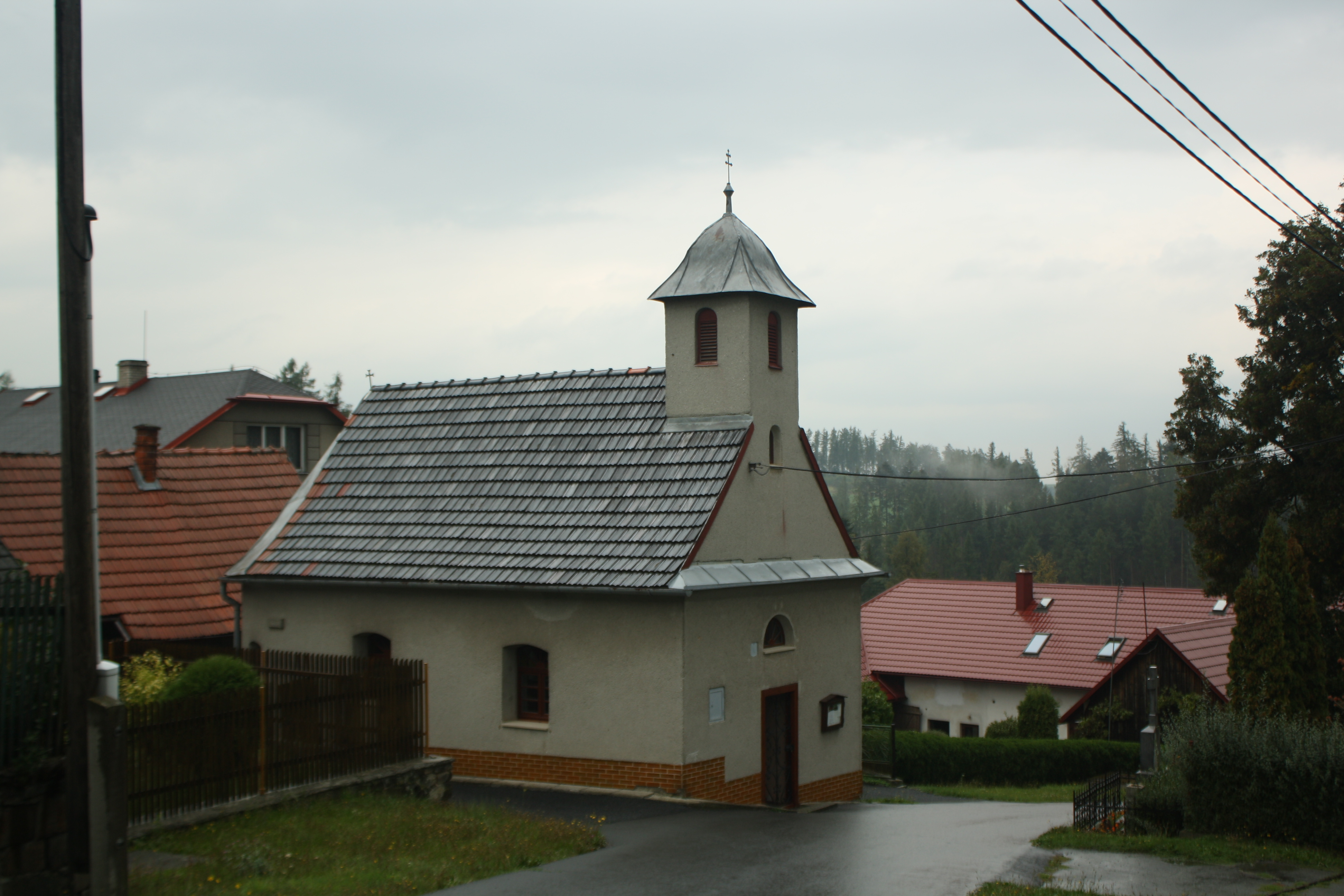 Heltínov, municipality and part of Luboměř, Nový Jičín District, Moravian-Silesian Region, Czechia